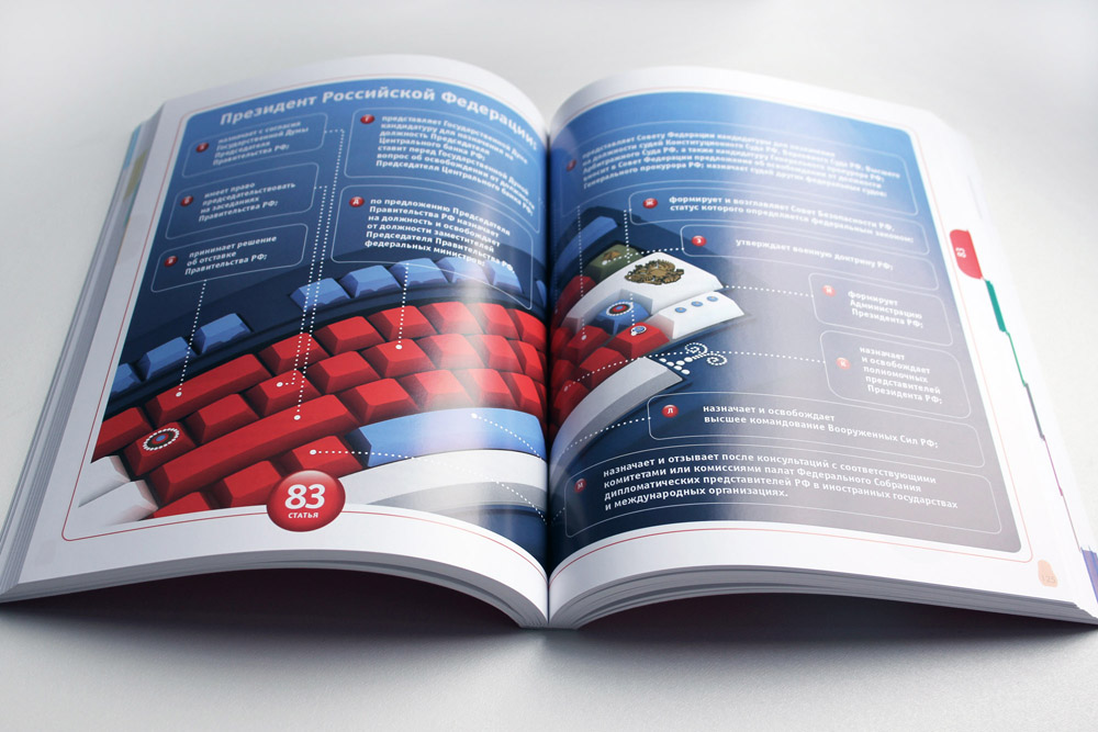 «Russian Constitution Illustrated» book. Artwork by Natalia Khudyakova and Maxim Gorelov. «We will give the Constitution to the people!» We are glad to present the second edition of «Russian Constitution Illustrated» book (ISBN 978-5-9903543-2-6). The decoration of structural logic and infographics in the constitutional-legal field are so rare phenomenons that we can talk about the uniqueness of this publication. The book is logically illustrated by pictures and patterns made in the traditional style. It makes legal language of Constitution reading much more easier. The Constitution of Russian Federation text in Russian and English is verified with official sources and includes all adopted amendments. This informative publication can be special Russian souvenir and great gift. Thank you for your interest to the main book of Russia! Award: «Muses of the World» IV International competition: 1st prize in the category «Graphical Design», for the artwork in the book «Russian Constitution Illustrated».